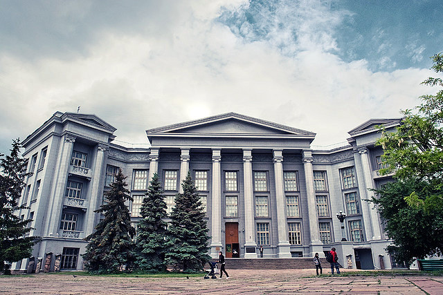 The National Historical Museum of Ukraine — in Kiev.